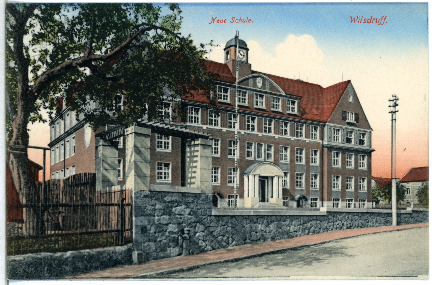 This postcard is from publisher Brück & Sohn in Meißen ( This postcard has a unique number 14269 and is available in a higher resolution at the publisher. This images was uploaded in a cooperation project between Wikipedians and the publisher.